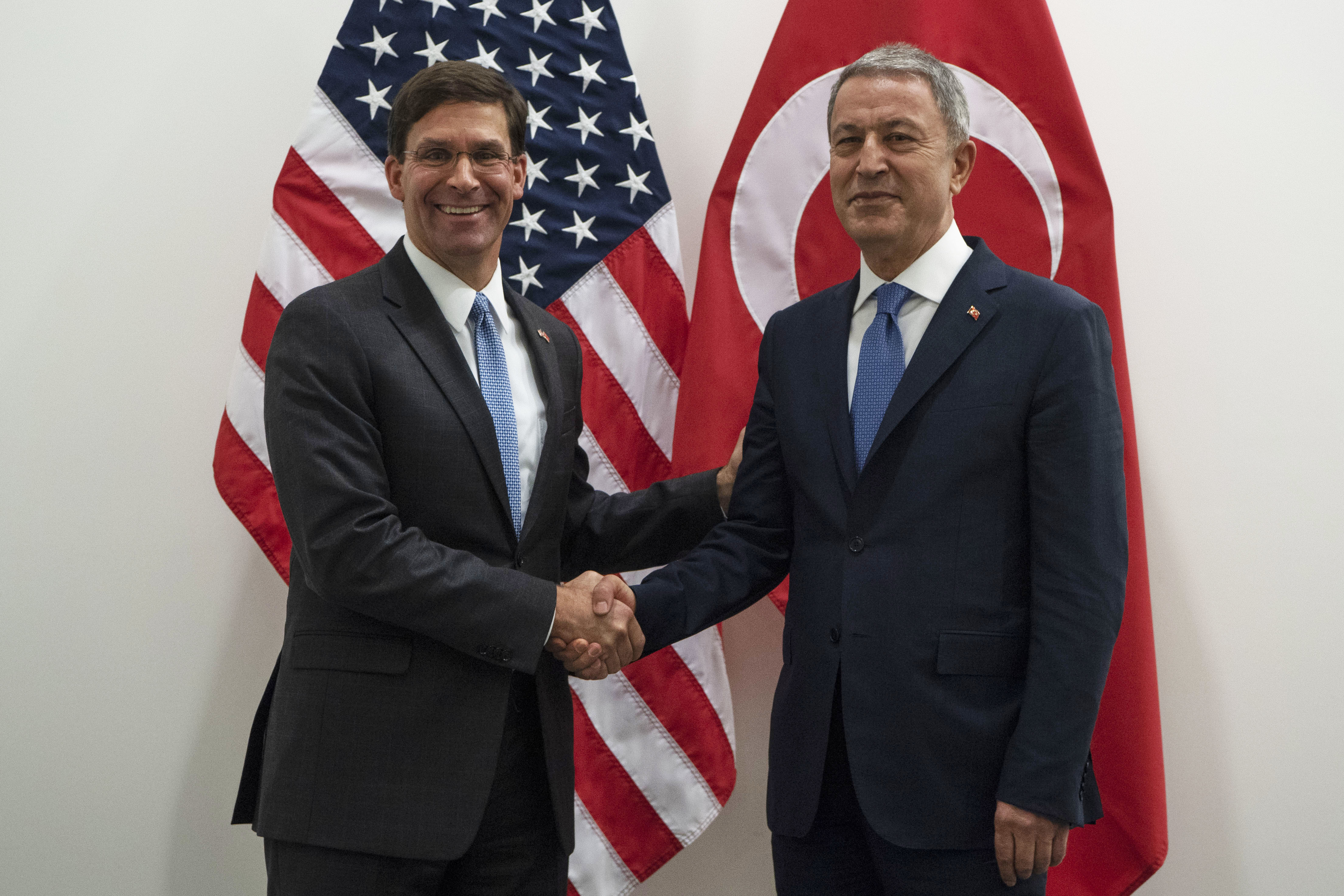 Acting U.S. Secretary of Defense Mark T. Esper meets Turkish Minister of National Defense Hulusi Akar at NATO headquarters, Brussels, Belgium, June 26, 2019. (DoD photo by Lisa Ferdinando)